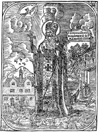 Saint Simon, bishop of Suzdal and monk at Kyiv Caves monastery, Ukraine, where his relics are preserved. Orthodox saint from 12 century.